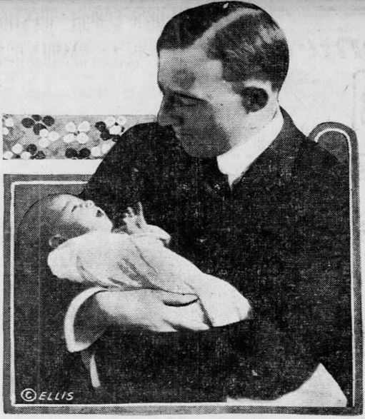 Francis Bowes Sayre Sr. and daughter, Eleanor Axson Sayre (son-in-law and granddaughter of Woodrow Wilson)